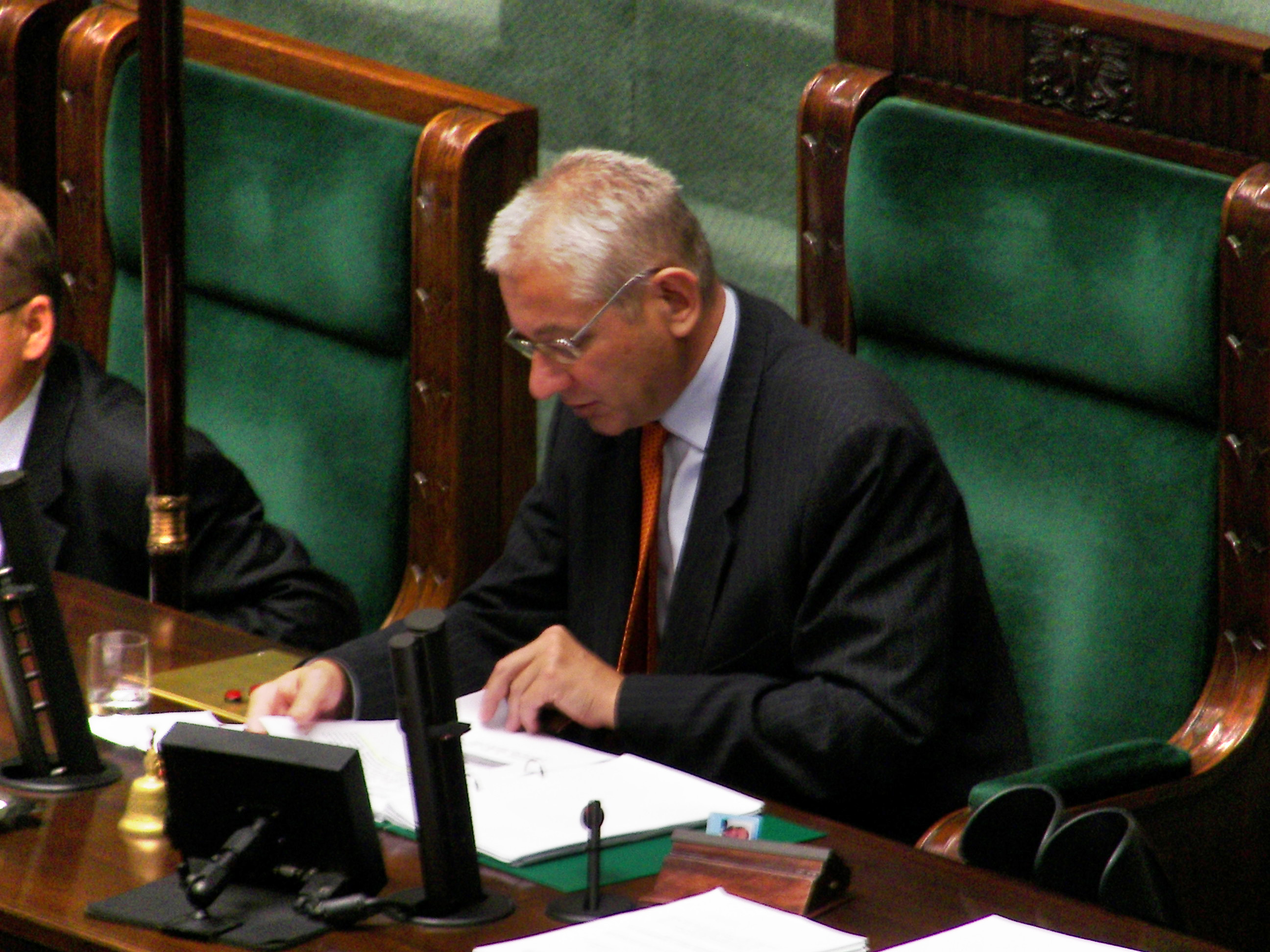 Poland's parliament called early elections (Fri Sep 7, 2007)